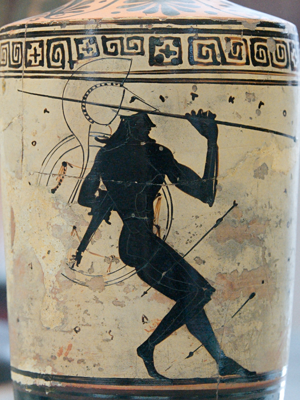 Warrior holding a spear under a rain of arrows; nonsensical inscription. Attic white-ground black-figured lekythos, ca. 475–425 BC.